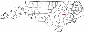 Category:North Carolina Dot Maps